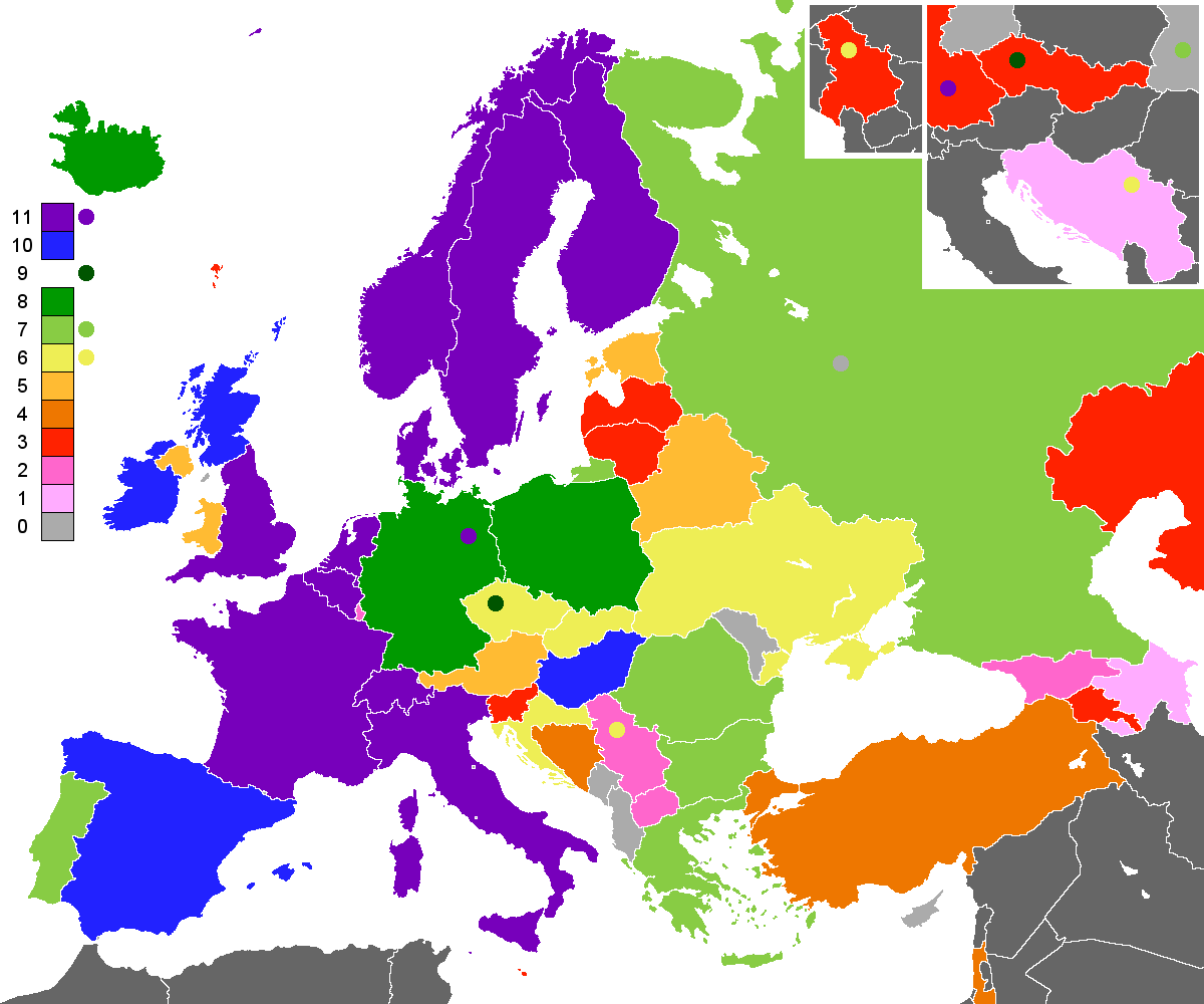 UEFA Women's Championship – Number of appearances inclusive qualification